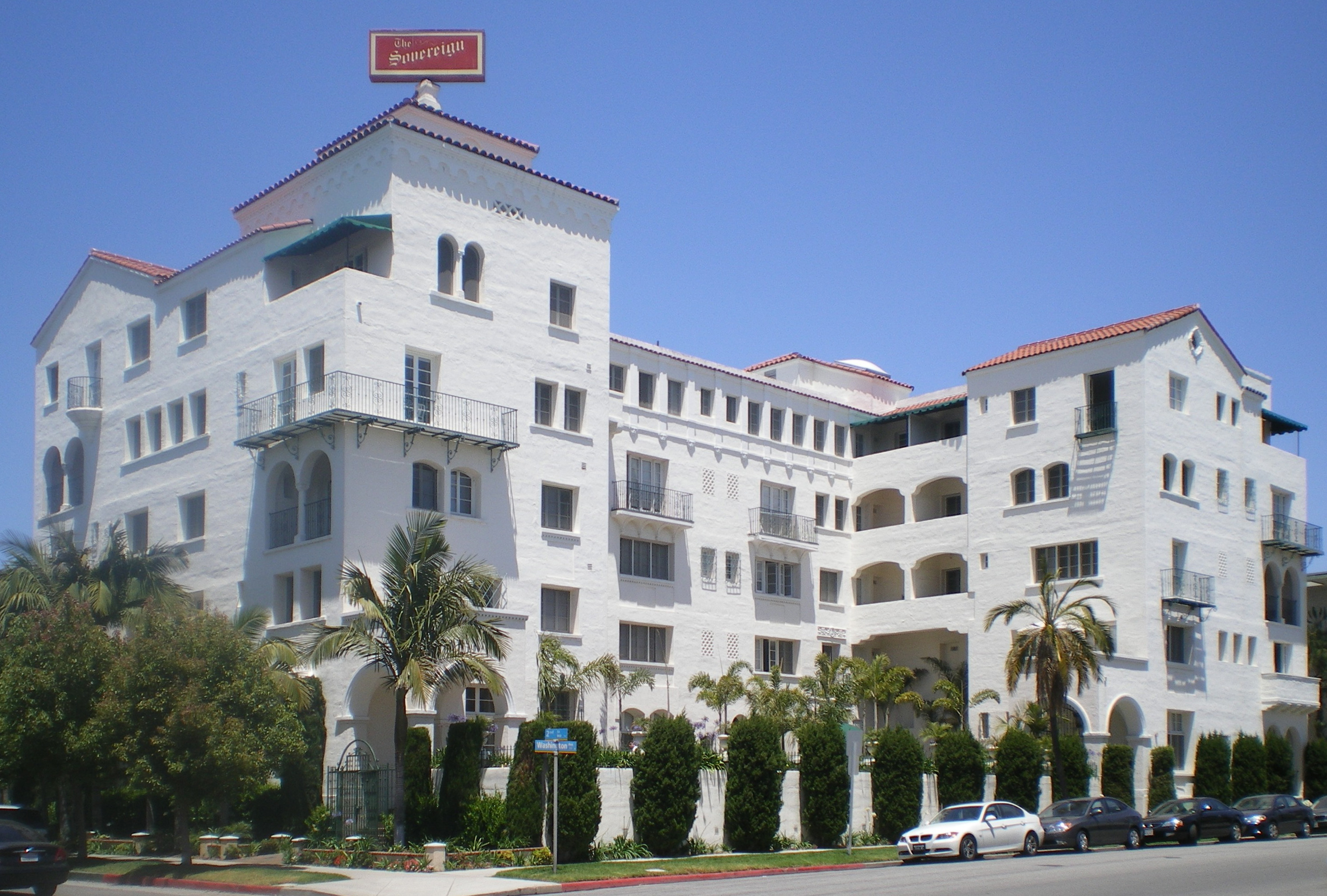 Sovereign Hotel, 205 Washington Ave., Santa Monica, California